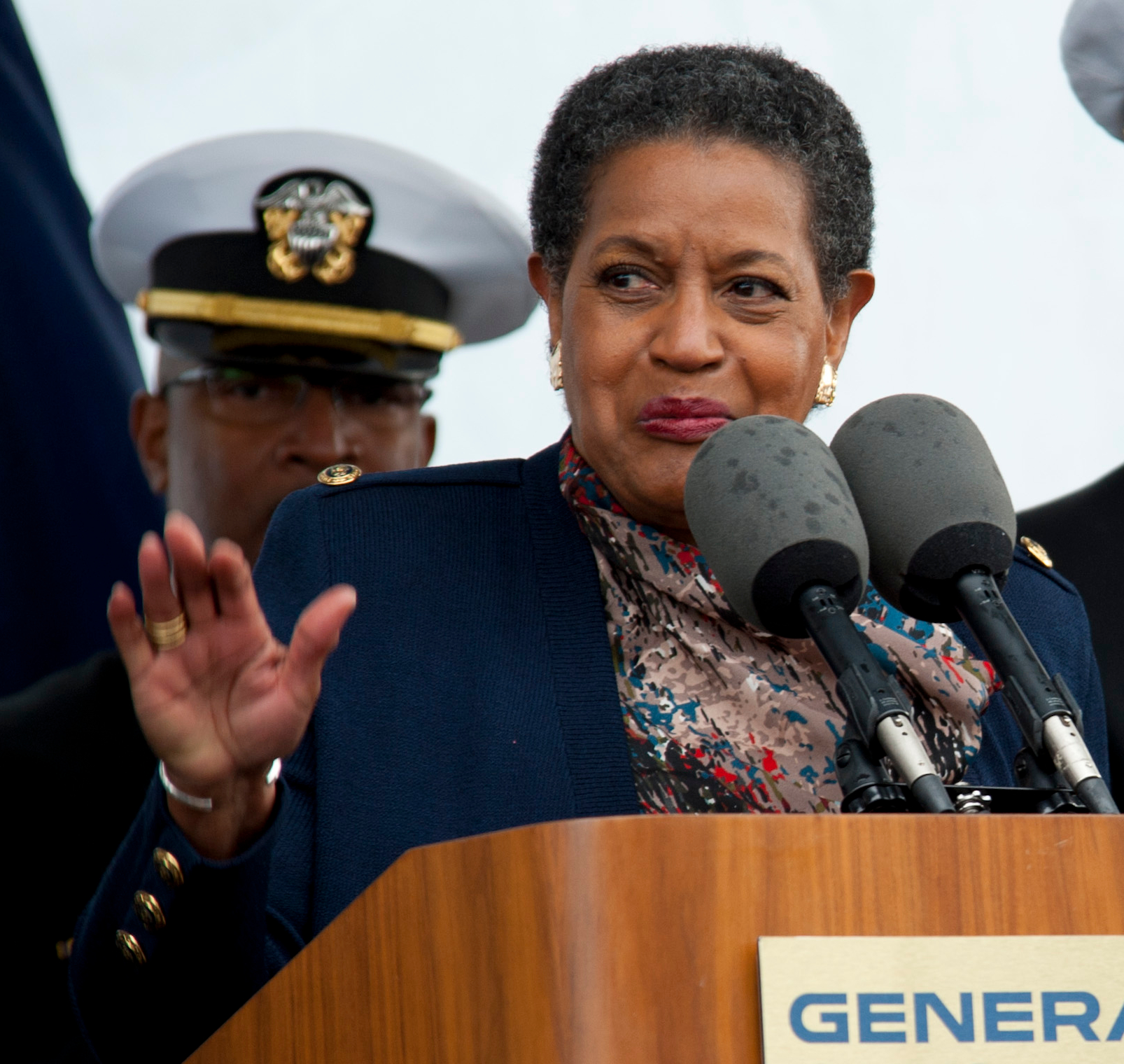 SAN DIEGO (Nov. 12, 2011) Myrlie Evers-Williams, widow of civil rights activist Medgar Evers, delivers remarks during the christening ceremony for the Military Sealift Command dry cargo and ammunition ship USNS Medgar Evers (T-AKE 13) at the General Dynamics National Steel and Shipbuilding Company. Medgar Evers is the 13th of the 14 planned Lewis and Clarke-class ships that provide food, fuel, cargo and other services to ships throughout the fleet. (U.S. Navy photo by Mass Communication Specialist 3rd Class Christopher S. Johnson/Released)